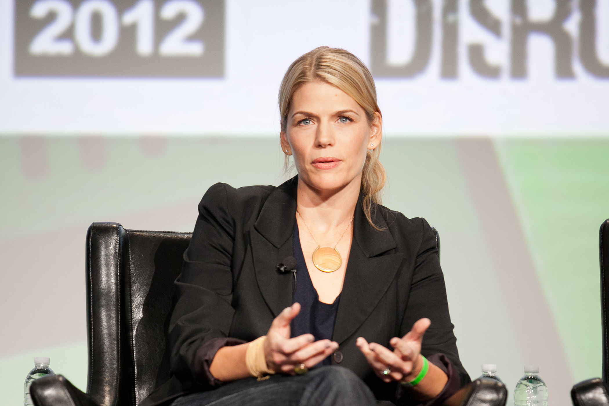 Alison Moore of HBO.